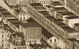 Market Square, as it appeared on an 1886 map of Knoxville, Tennessee, USA. The long building with the two arched entrances is the Market House, with City Hall right behind it. The Mall Building (still standing) is the large building in the foreground, to the left of the Market House. The Market House and City Hall are no longer standing, and the square is now an open pedestrian mall.